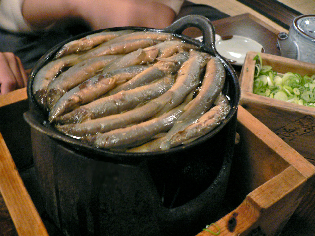 Loach pot (dozeu nabe) before adding sliced welsh onion from Komakata Dozeu, Taitō, Tokyo.